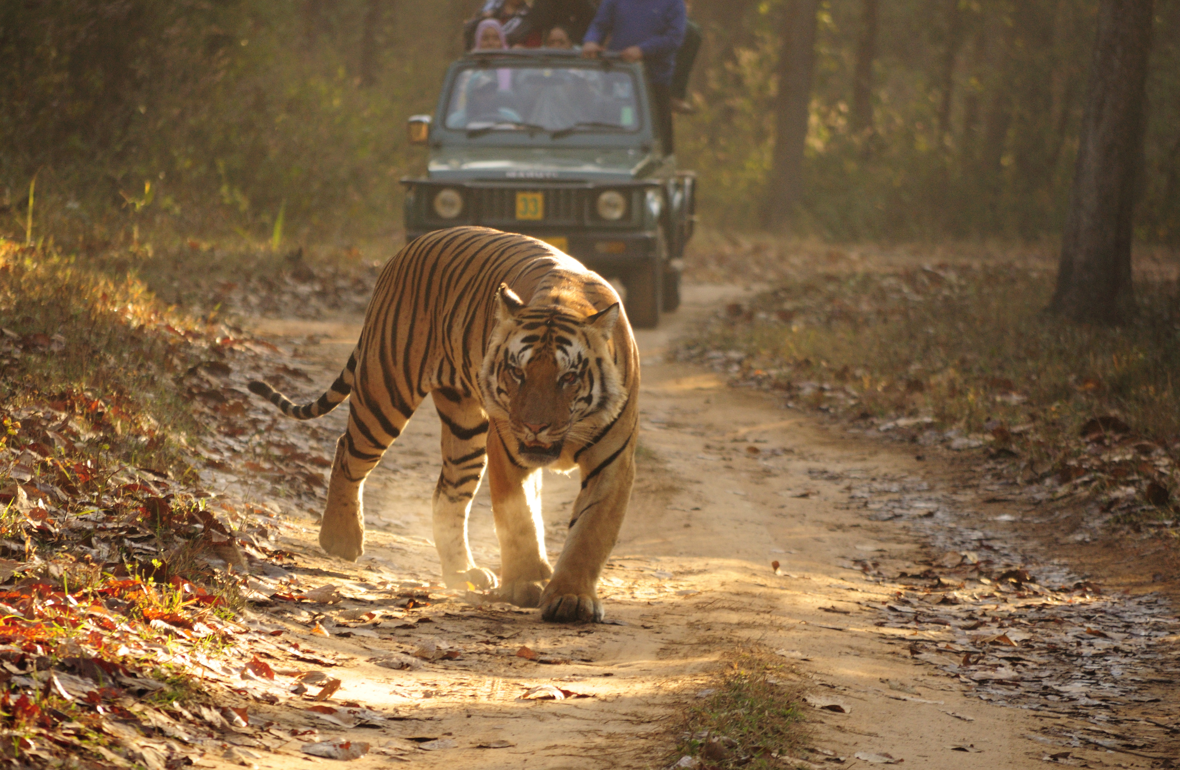 A 8 year old Royal Bengal Tiger (Panthera tigris) walks a dust track at Kanha National Park, Madhya Pradesh. The morning atmosphere was full of dust created by moving gypsy vehicles.